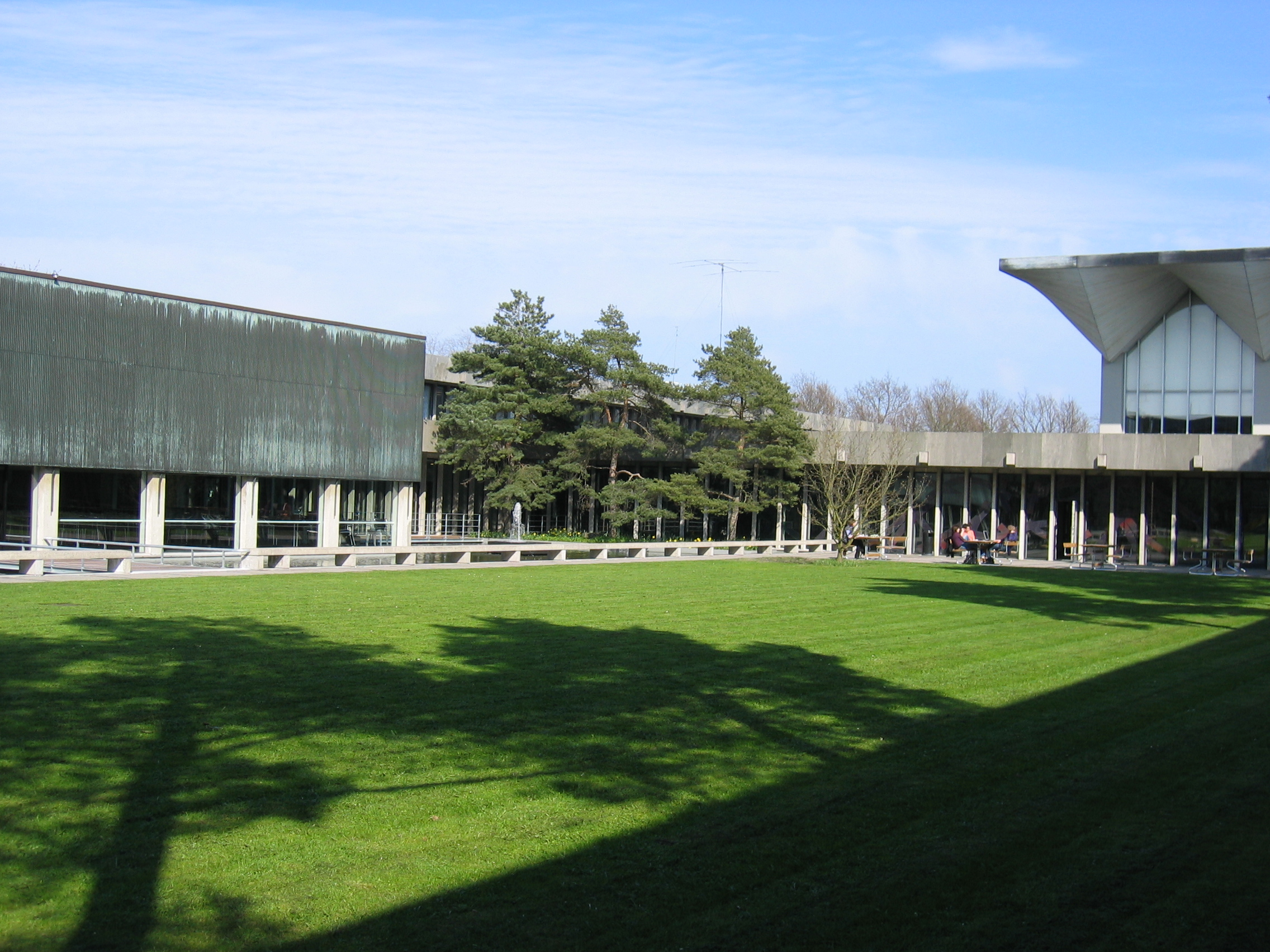 Technical University of Denmark, Kongens Lyngby, Denmark